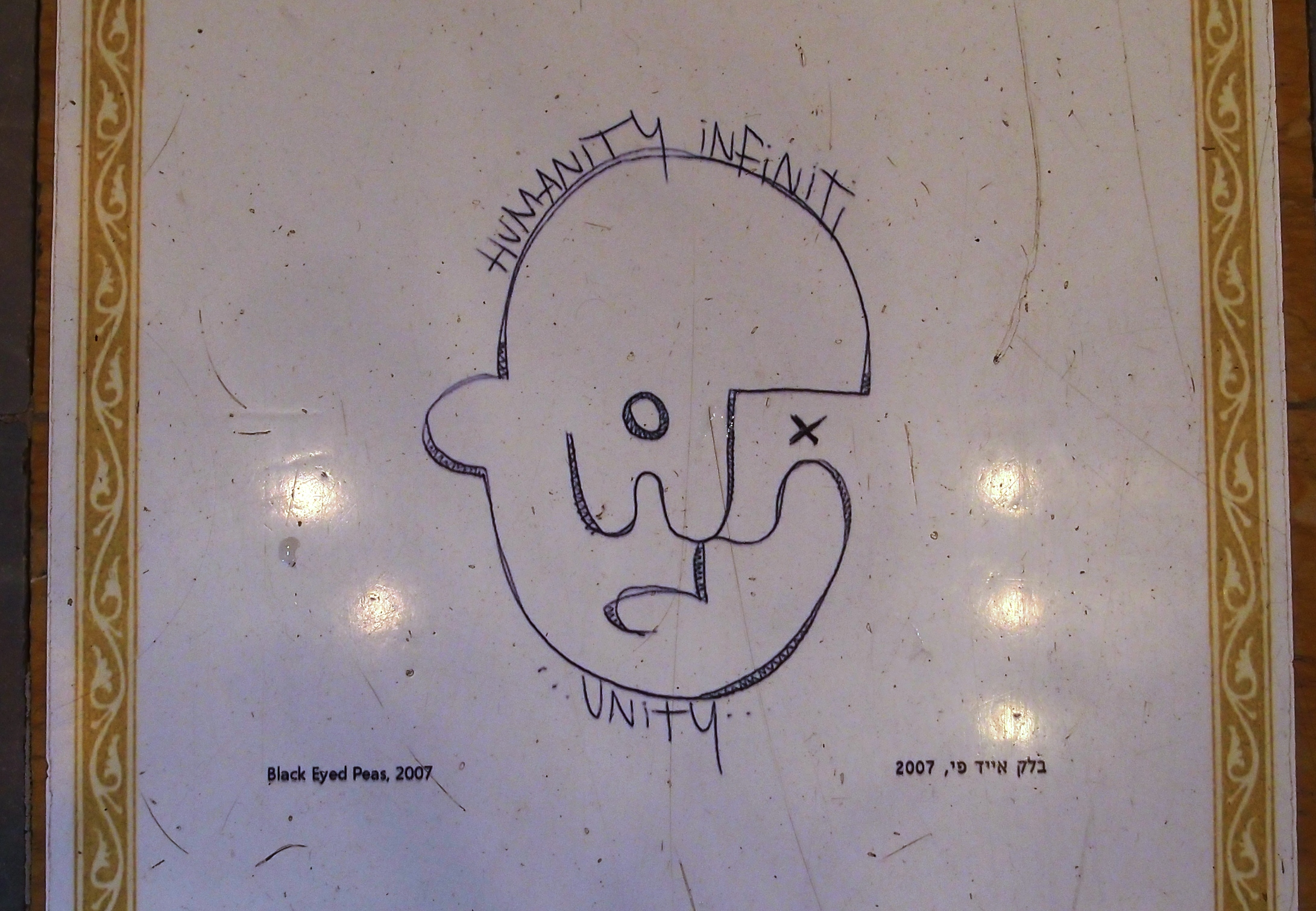 Tribute to BlackEyedPeas' stay at the King David Hotel in Jerusalem 2007.